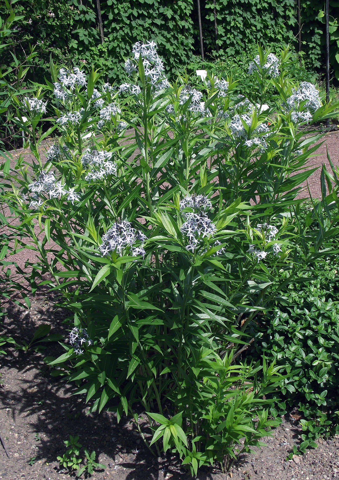 Amsonia tabernaemontana 'Blue Ice' - Eastern Blue Star (Apocynaceae)